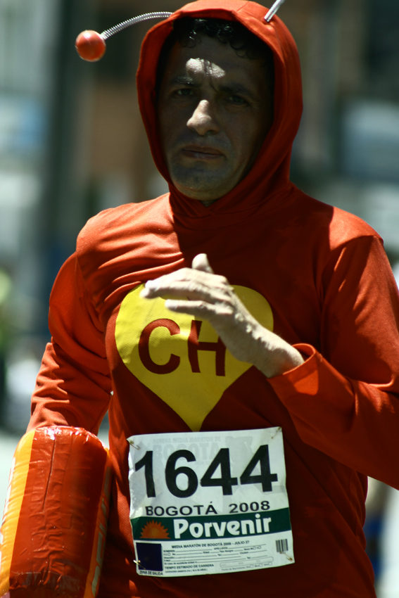 Uno de varios personajes que se vieron en el evento, John Jairo Pinzón Romero, en un homenaje que ha realizado por varios años al chapulín en la media maratón.One of several characters who were at the event, John Jairo Pinzon Romero, in a tribute he has done for several years the locust in the half marathon.